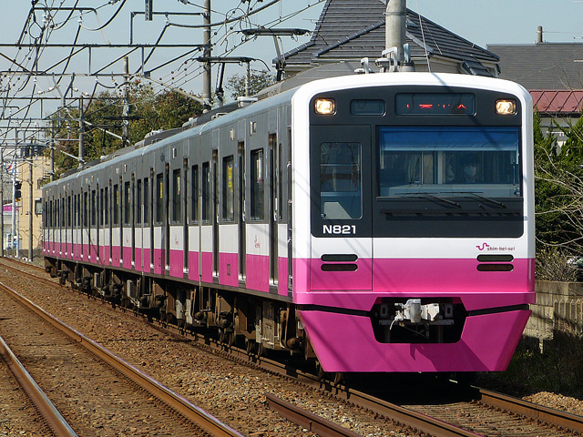 Shin-Keisei Electric Railway N800 series EMU set N821 in revised livery approaching Minoridai Station